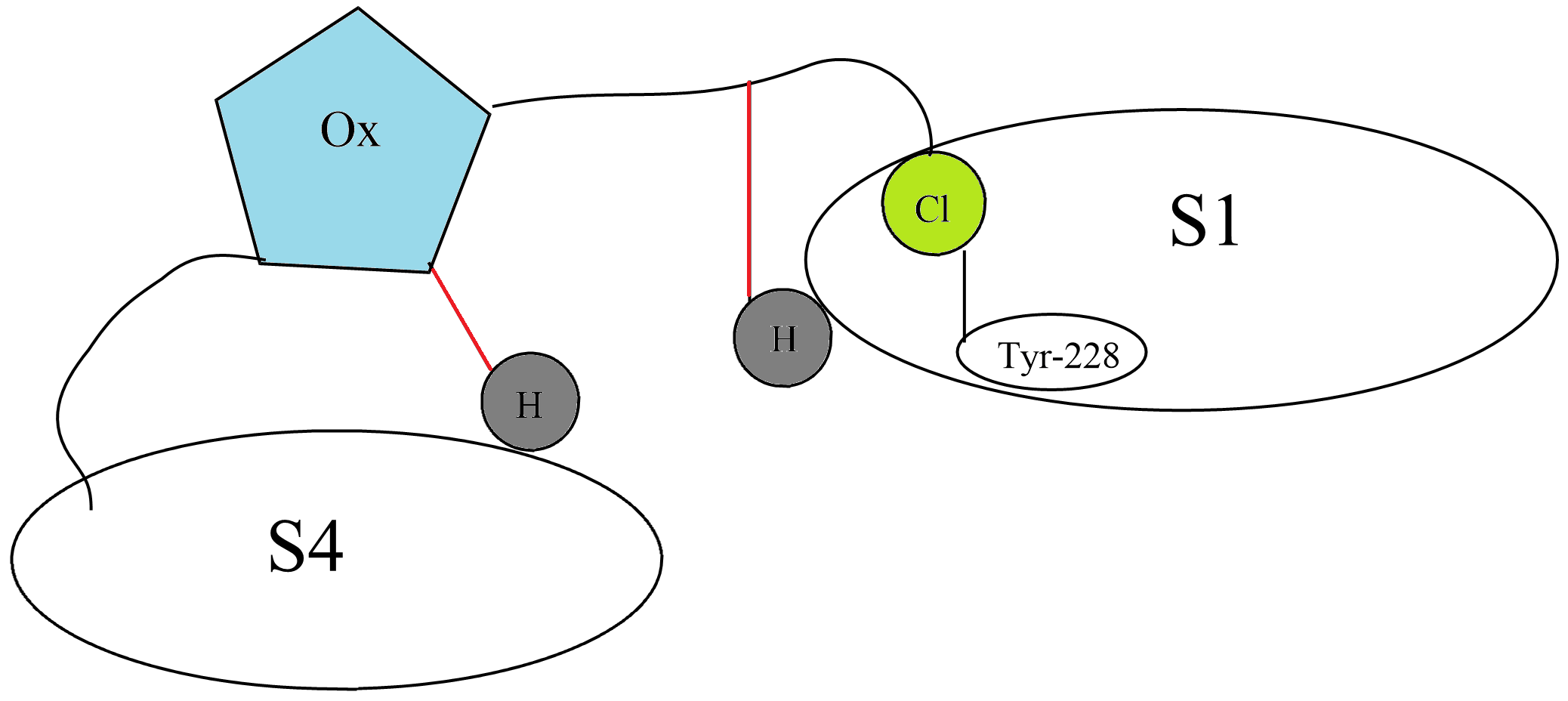 Rivaroxaban binding pockets depicted with S1 and S4